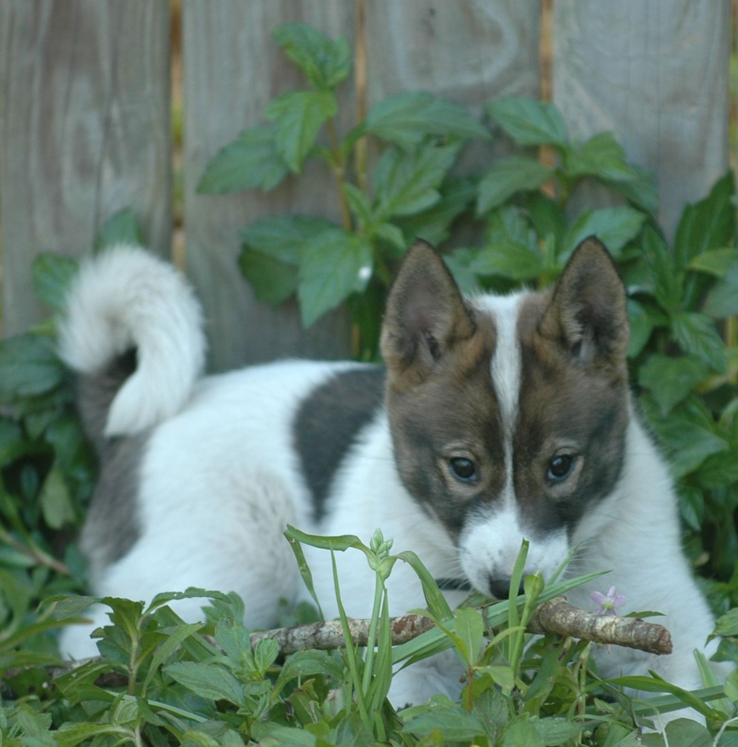 image of a West Siberian Laika